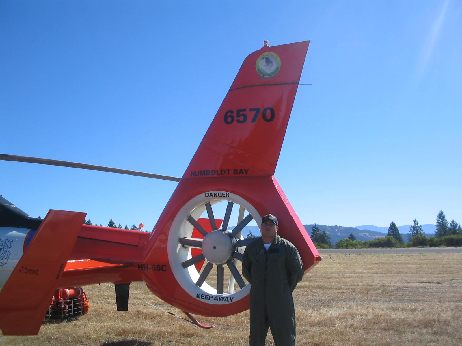 Original 11-blade Fenestron used on the tail of an HH-65C helicopter